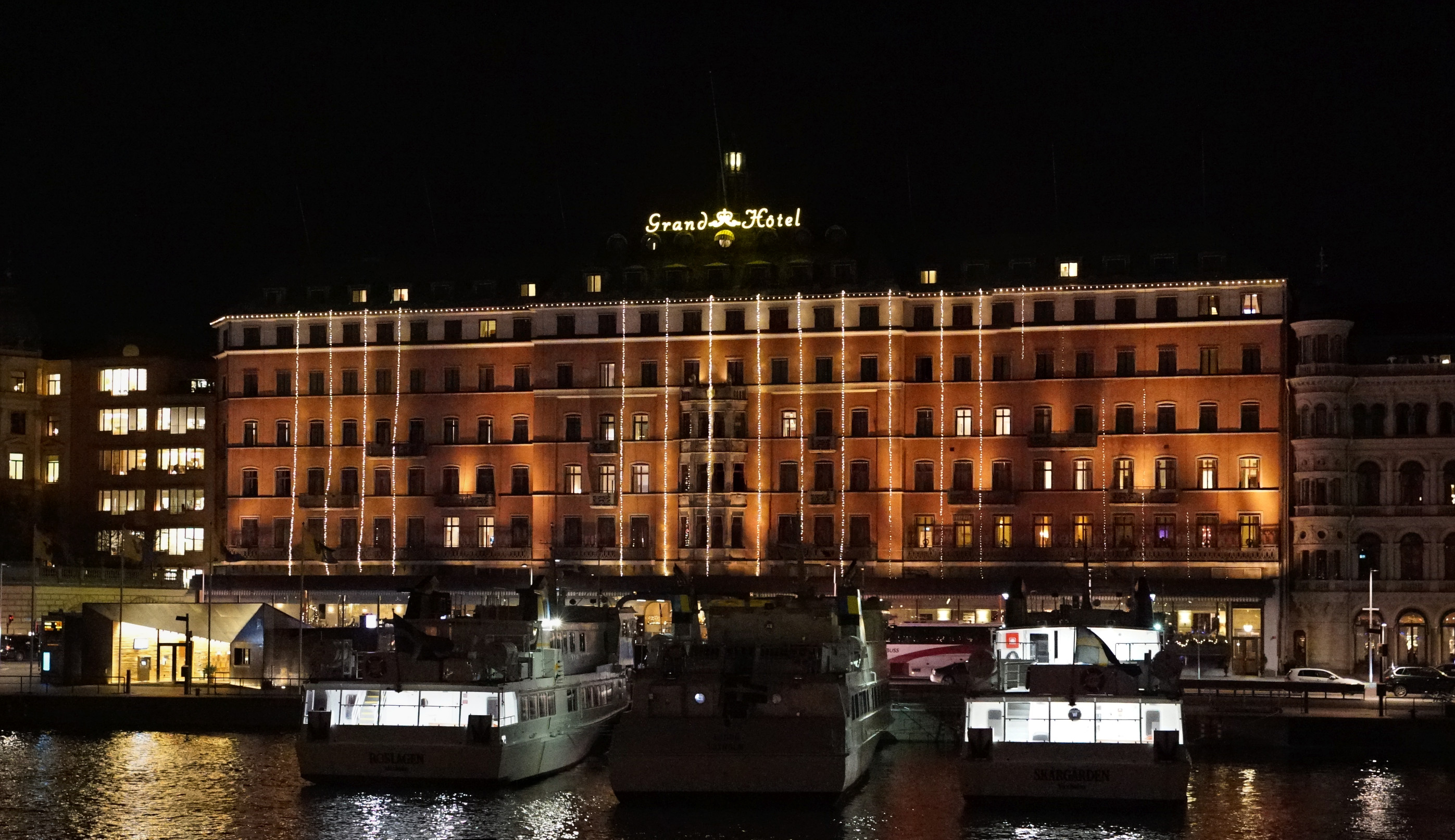 Grand Hôtel, Stockholm, photographed at night from the water.